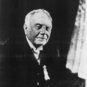 circa 1915 portrait of Nathan F. Barrett. which was later published in Landscape Architecture and sever other periodicals.